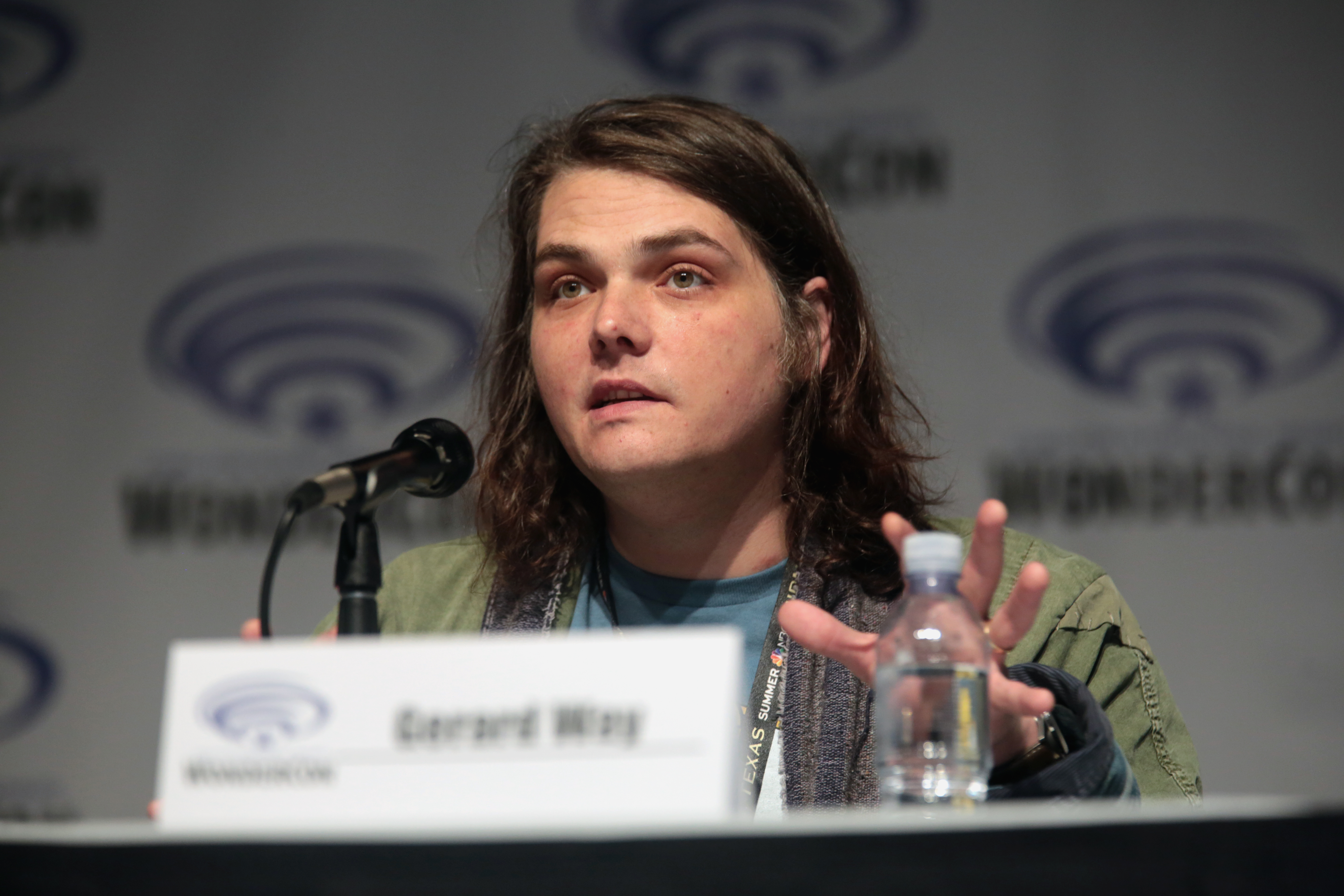 Gerard Way speaking at the 2017 WonderCon, for "DC's Young Animal", at the Anaheim Convention Center in Anaheim, California.